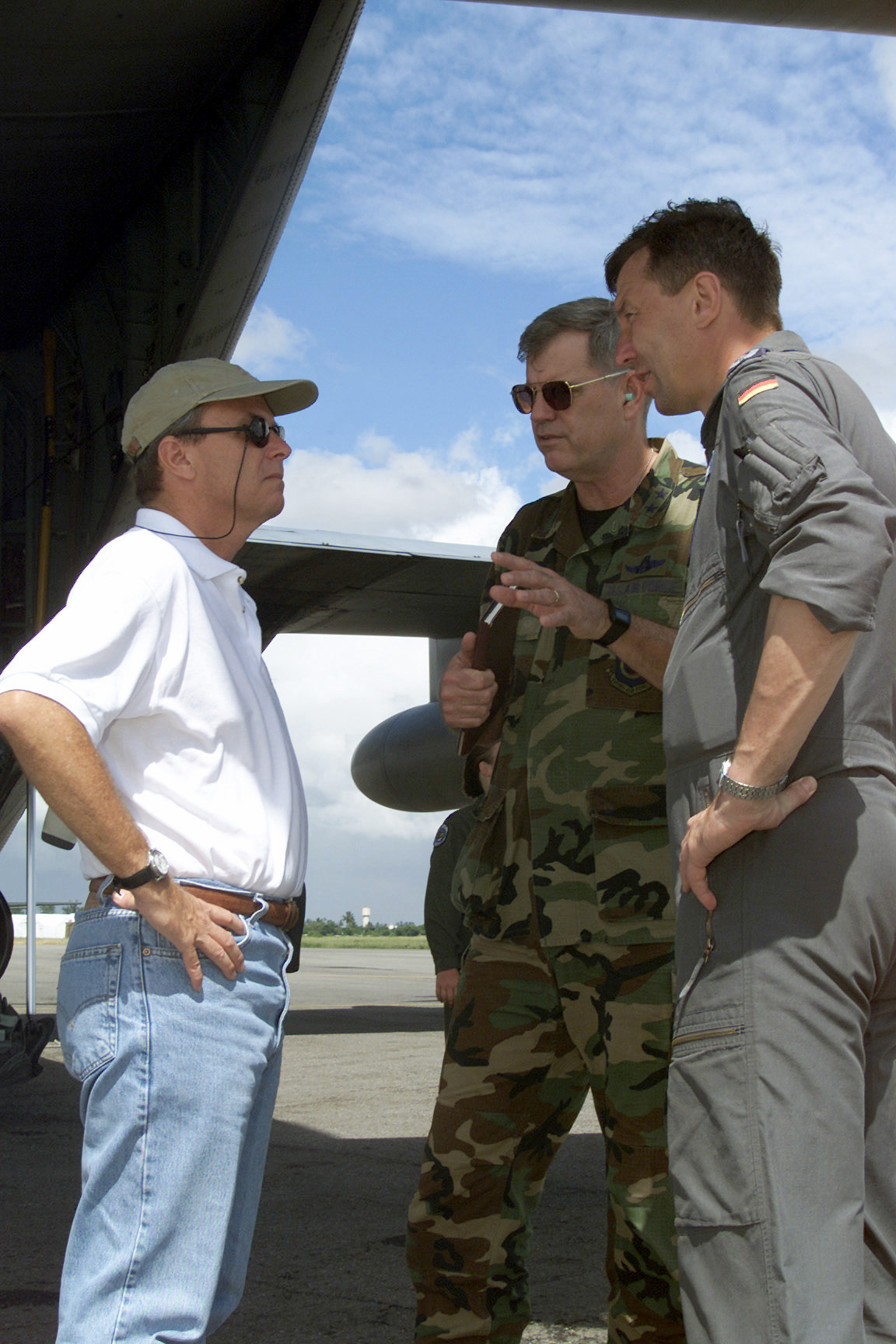 Scope and content: Date Taken: 3/16/2000